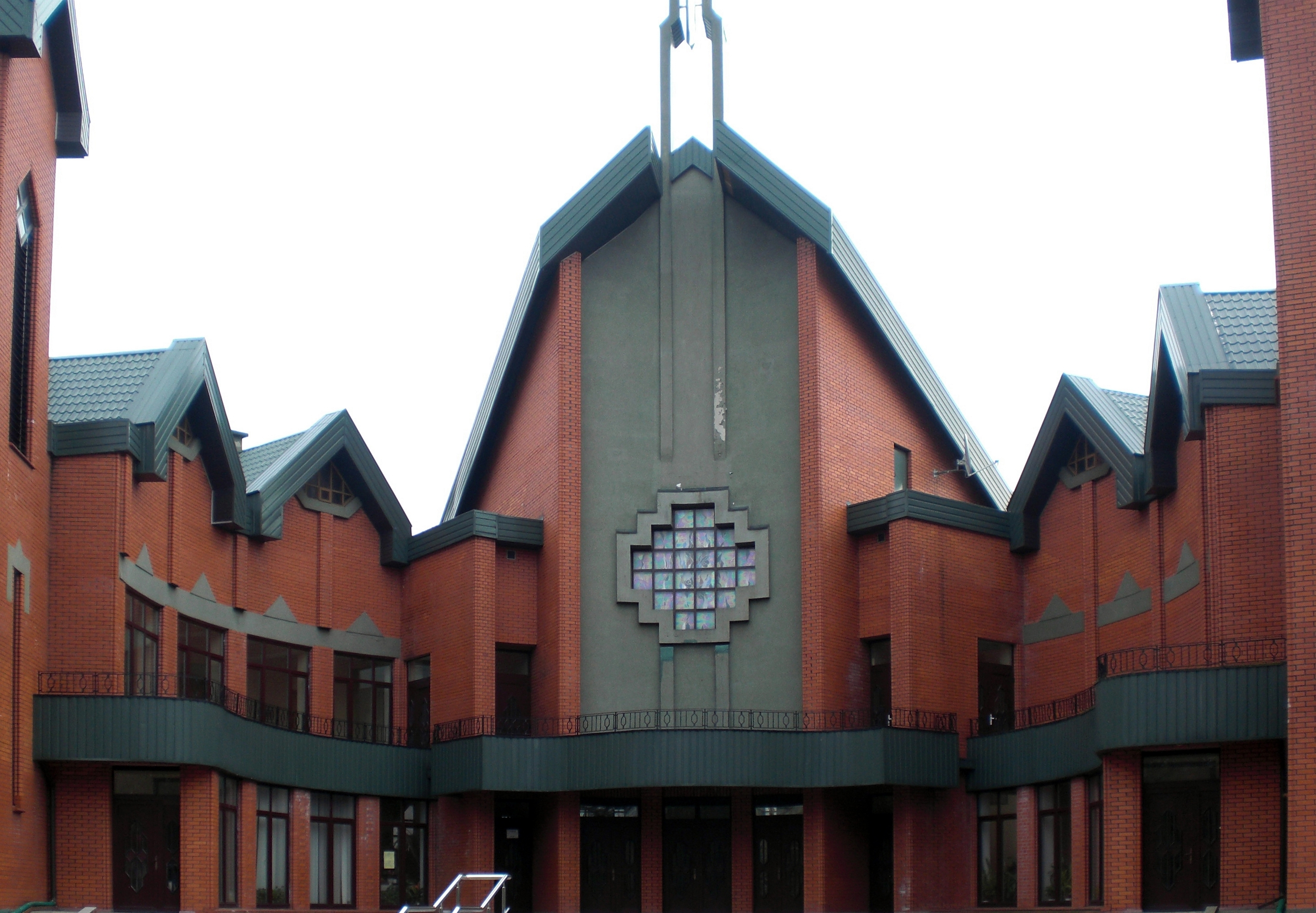 Lutheran church in Kaliningrad